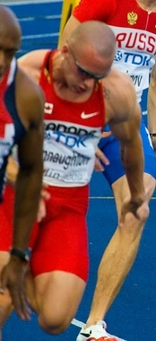 Jared Connaughton at the 2007 World Championships in Athletics